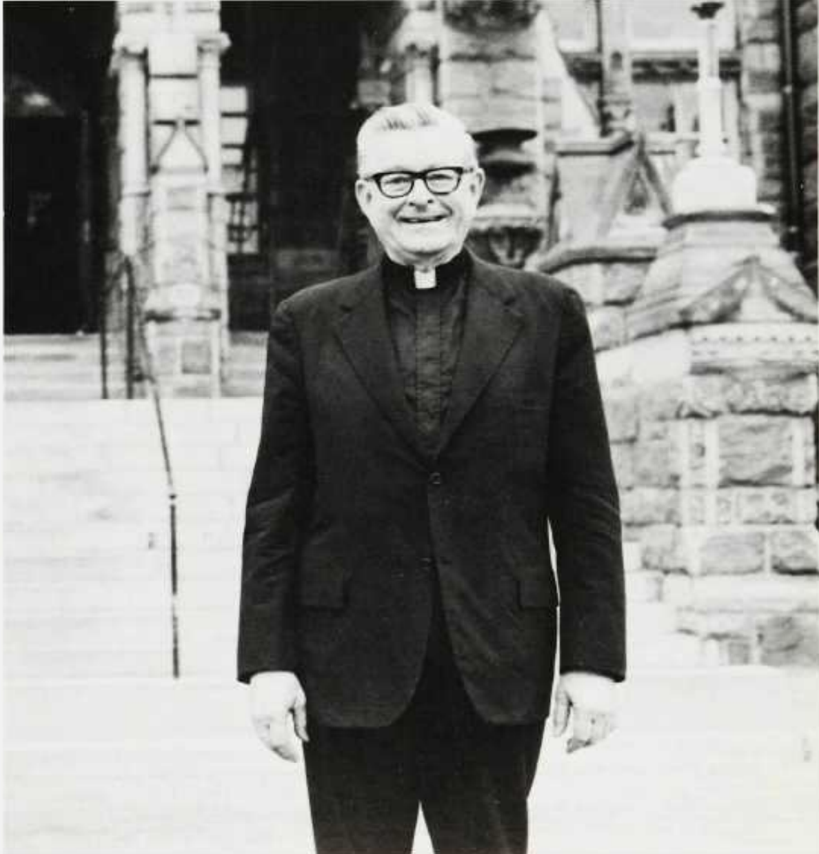 Robert J. Henle in front of Healy Hall at Georgetown University